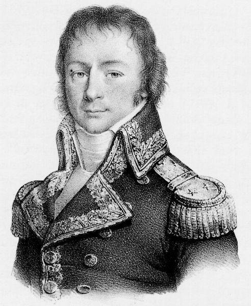 Lithography of Jean-Baptiste Perrée